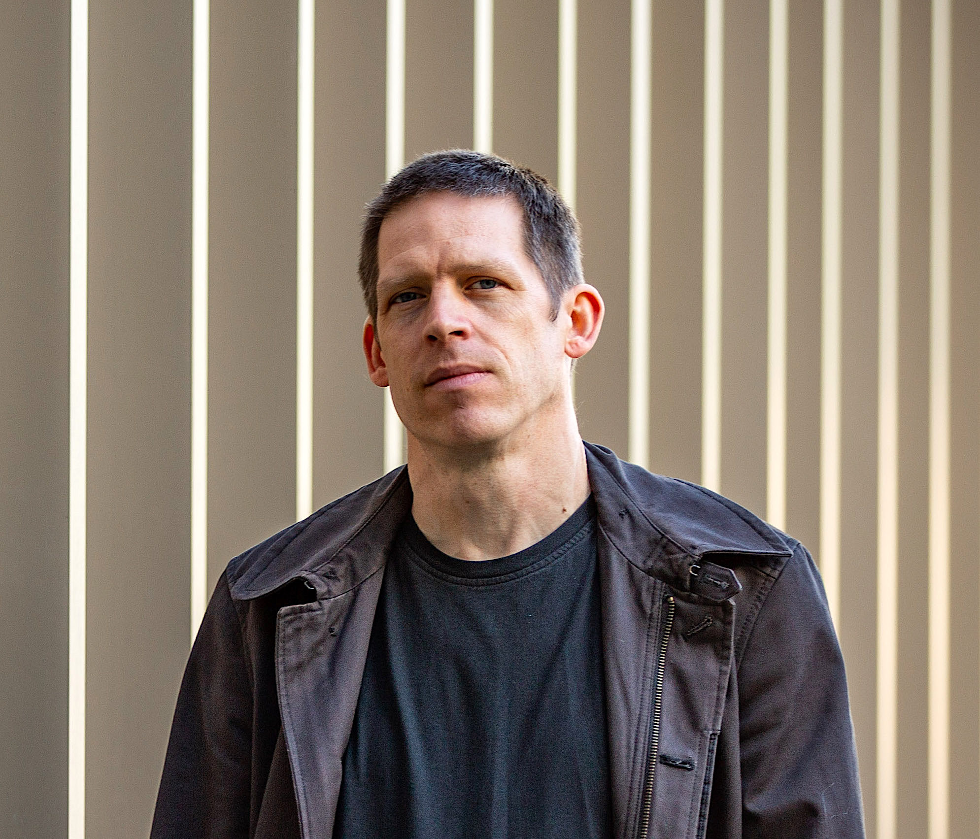 Portrait of Welsh composer Guto Pryderi Puw in 2018